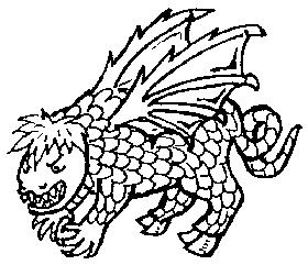 A drawing of an heraldic beast known as a Catoblepas. This image was drawn by User:Evadb based off of images in reference works on the subject.